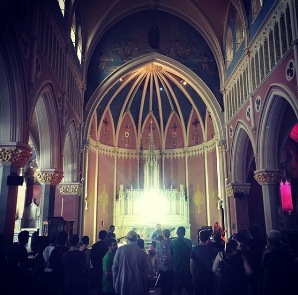 Young Legs performing at Cathedral Hall, 2016 North Jersey Indie Rock Fest.